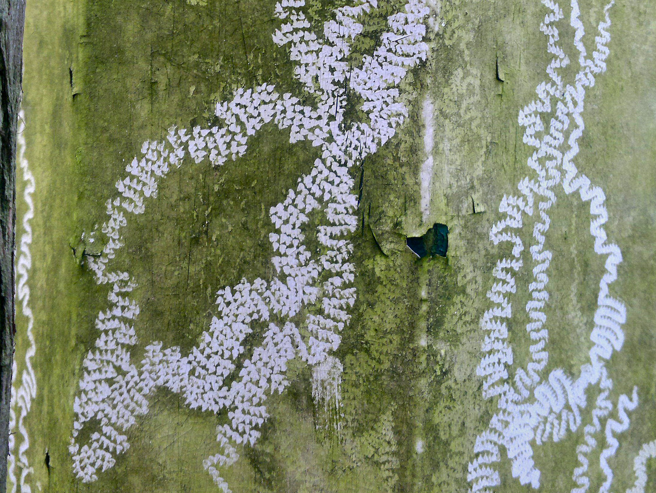 Tracks of land snails as zigzag marks left by file-like mouthparts (the Radula) on alga-covered paintwork. Temperate House, Kew Gardens, London.